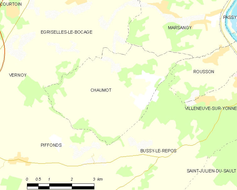 Map of French municipality Chaumot